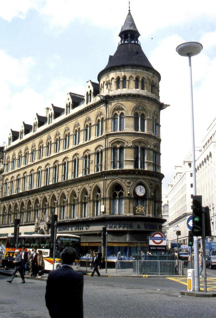 The Mappin & Webb building, London (as was). Designed by John Belcher in 1870, this architectural gem was built to house the offices of the royal silversmiths. Its shape and proportions suited perfectly the crowded space available, and it quickly became a great favourite with visitors approaching the city from the east. In 1968, developers began to make other plans for this site, involving demolition and rebuilding. A massive campaign fought off these plans until 1994 when its replacement - No. 1 Poultry - was erected. See1229381